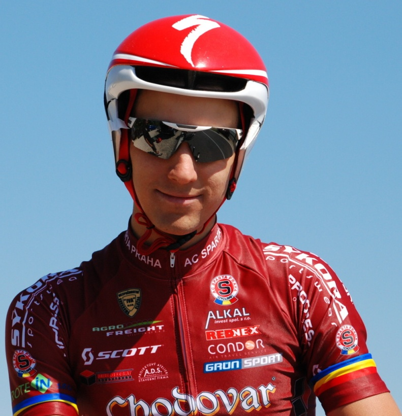 AC Sparta Praha Cycling